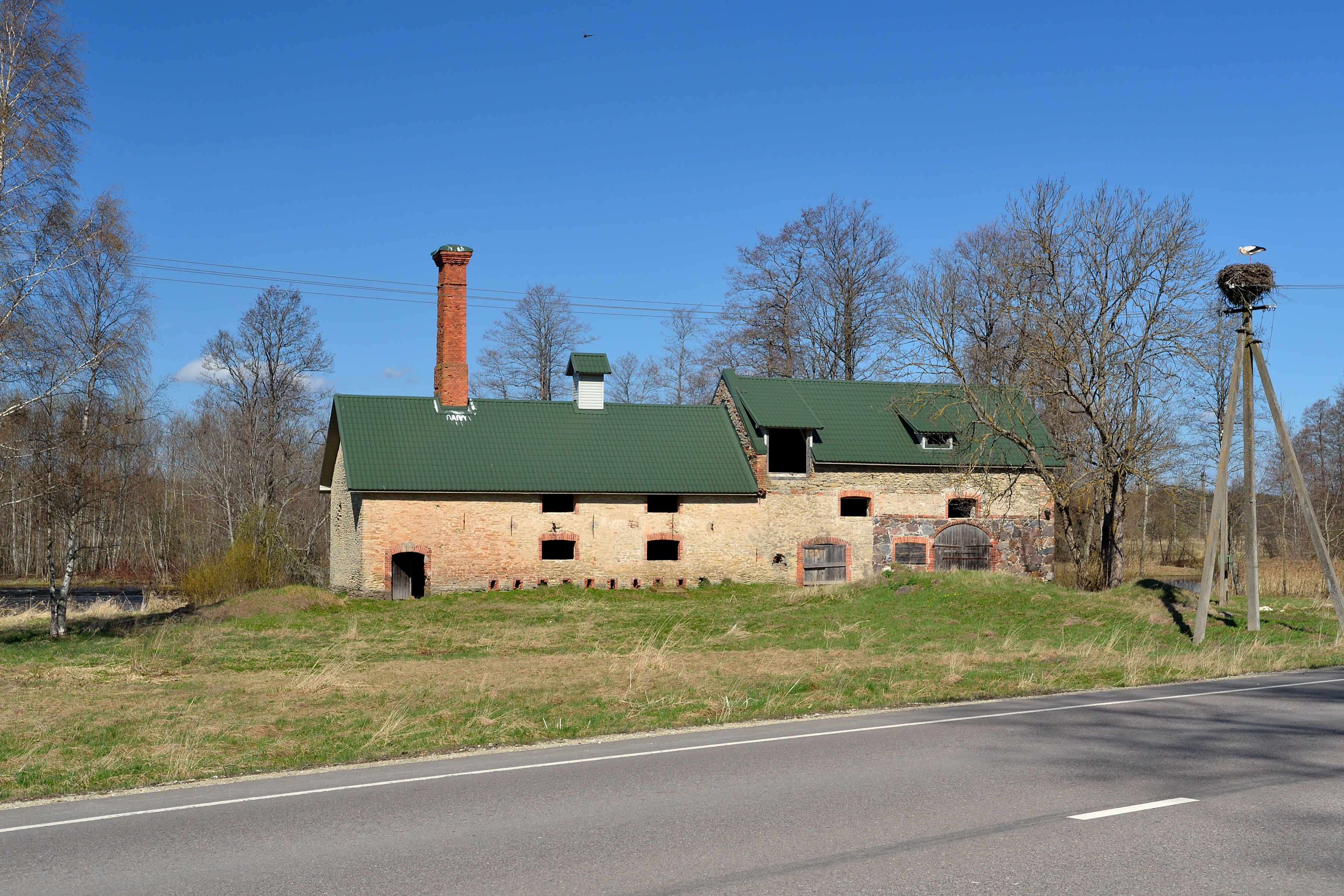 Särevere manor grain cereal dryer